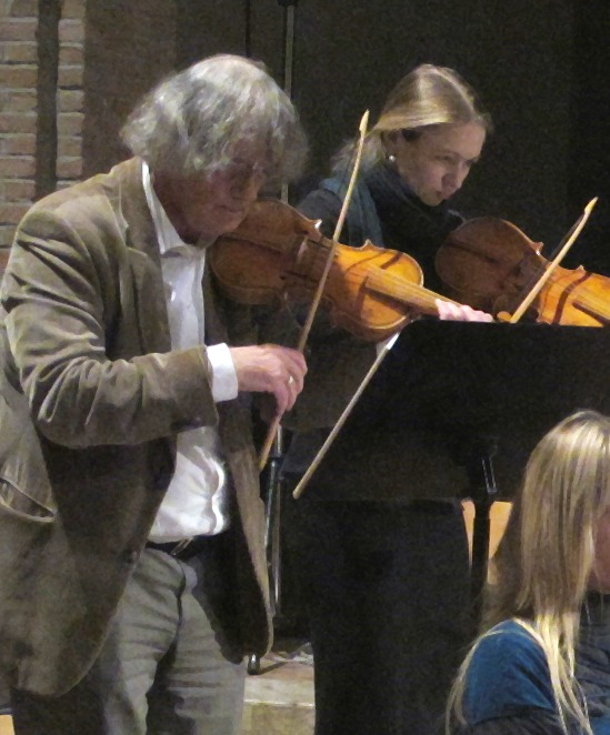 Early baroque violin and position by Sigiswald Kuijken, he plays with a light yew-tree wood bow.